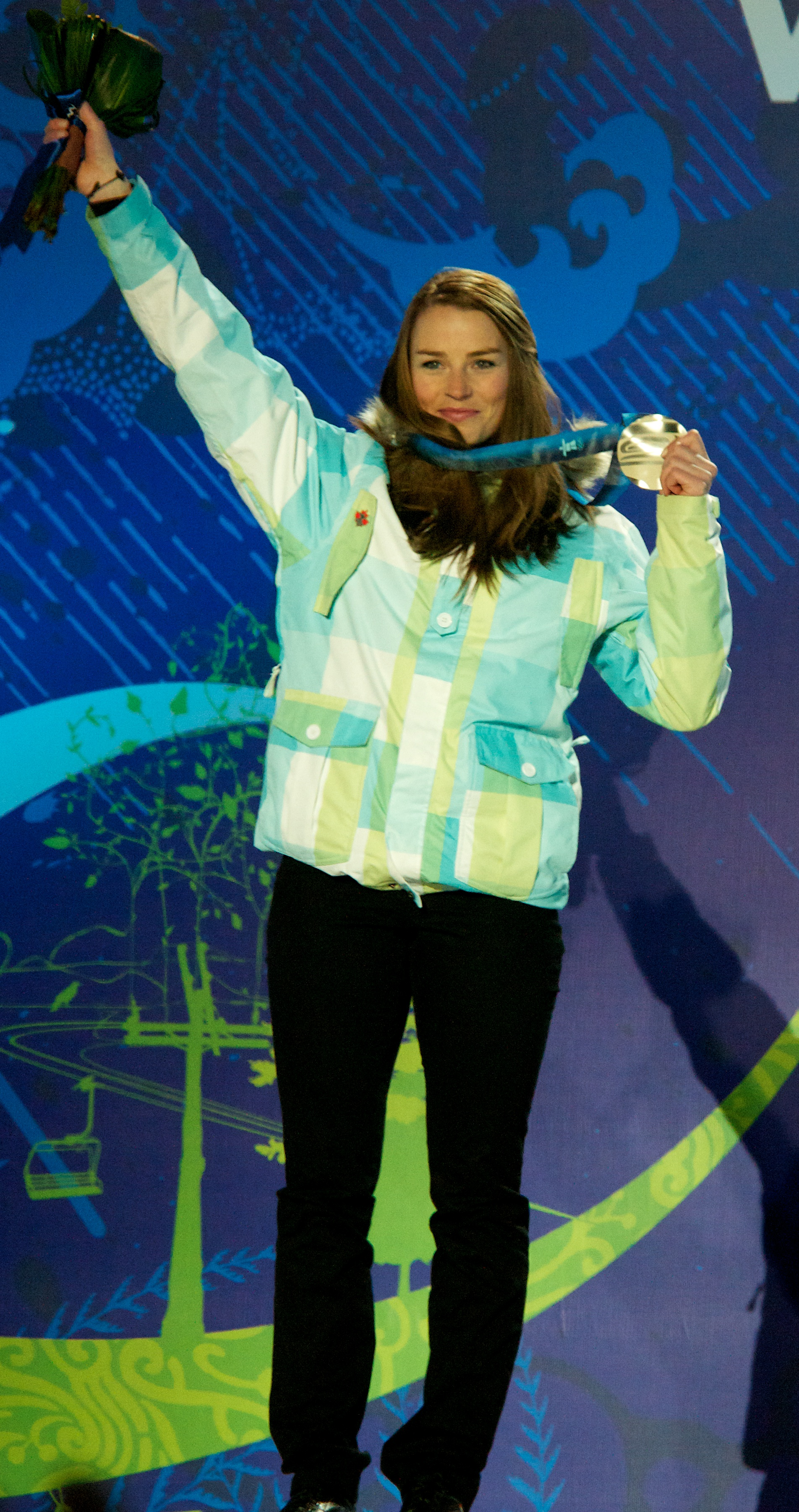 Tina Maze with olympic silver at 2010 Winter Olympics.